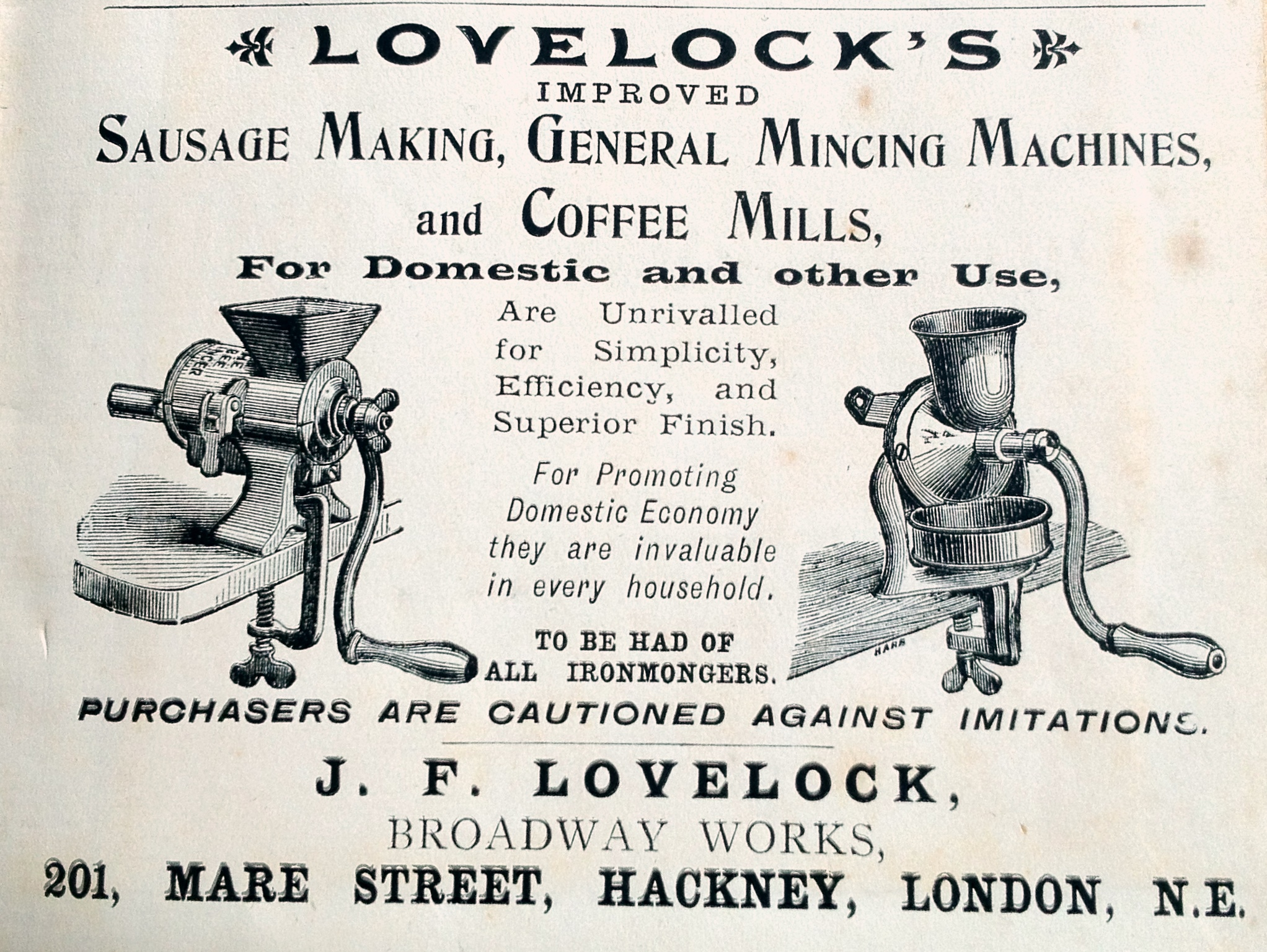 Advertise about a sausage making machine in 1894. In the first pages of Colonel Kenney Herbert's Fifty Breakfasts